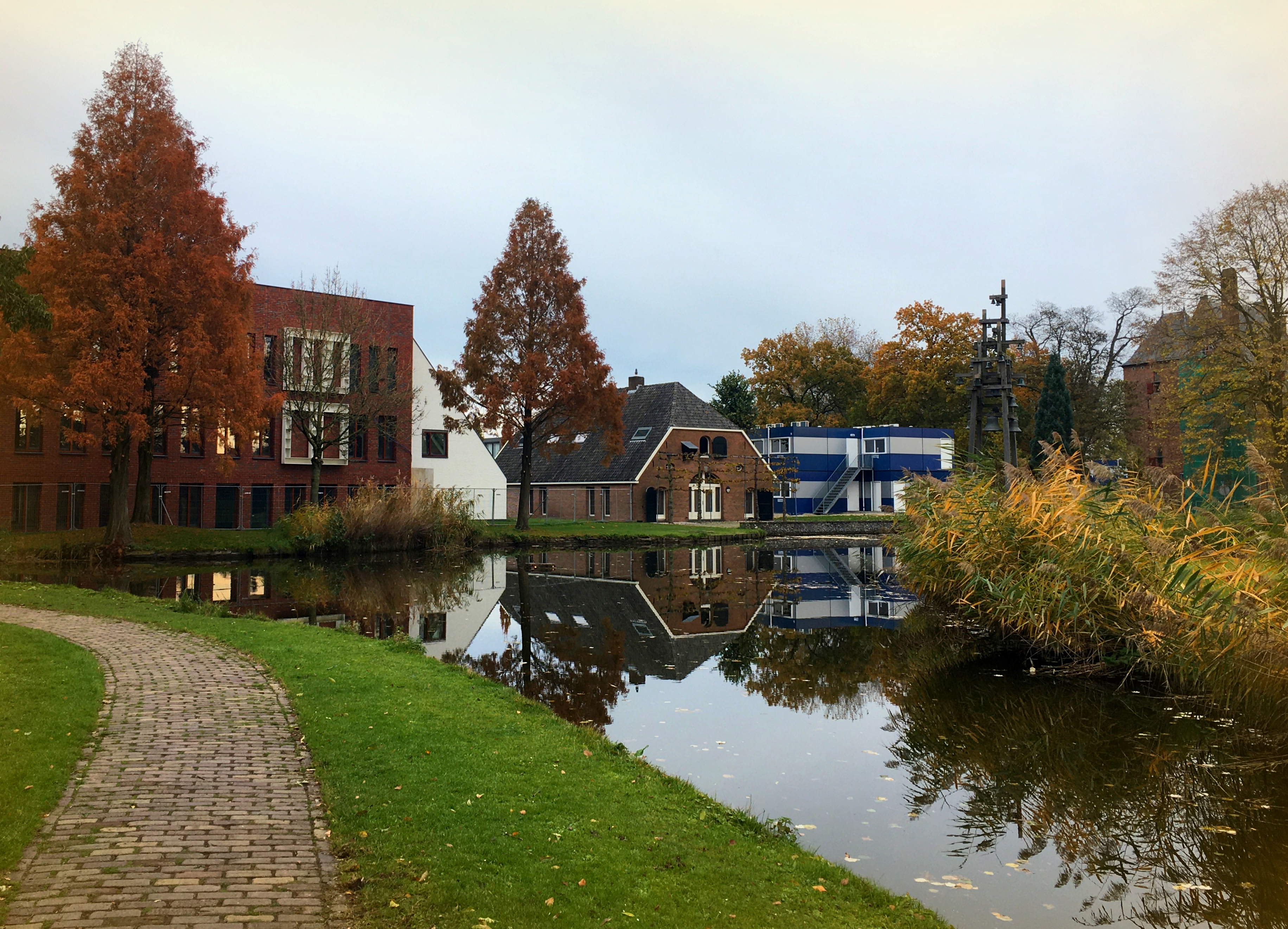 Lingewaard Town Hall during autumn (Bemmell)